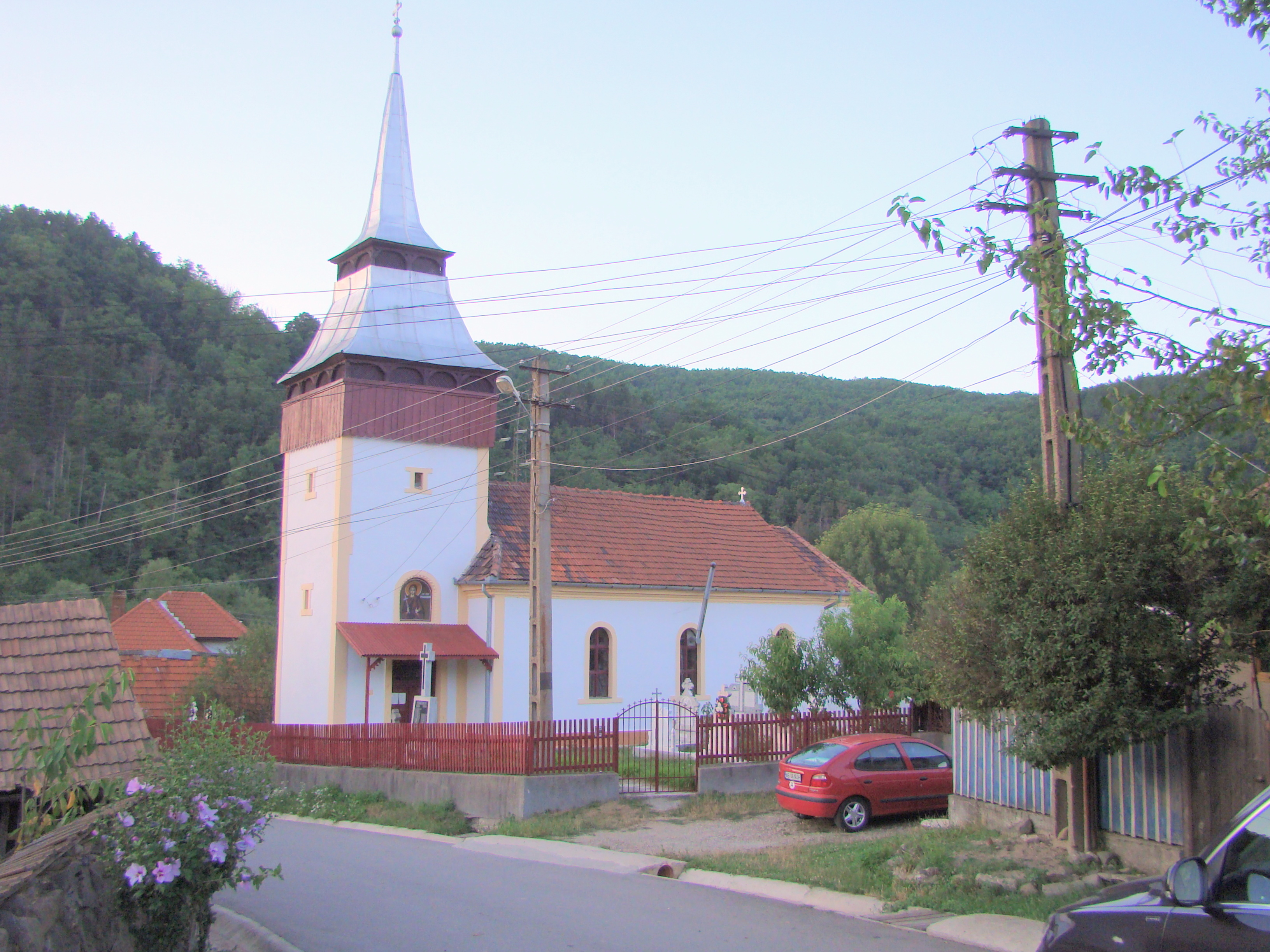 Saint Paraskeva's chuch in Poiana Ampoiului, Alba county, Romania